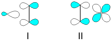 Dewar-Chatt-Duncanson_model